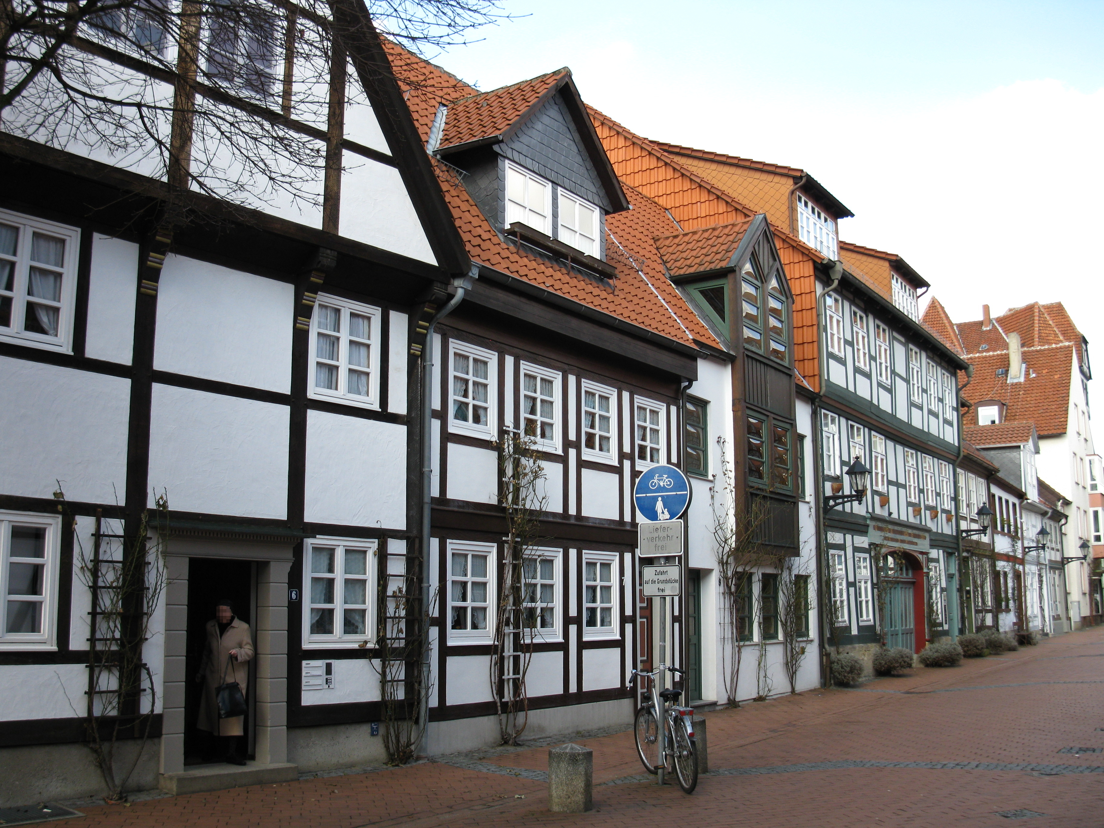 Knollenstrasse, western part, Hildesheim.